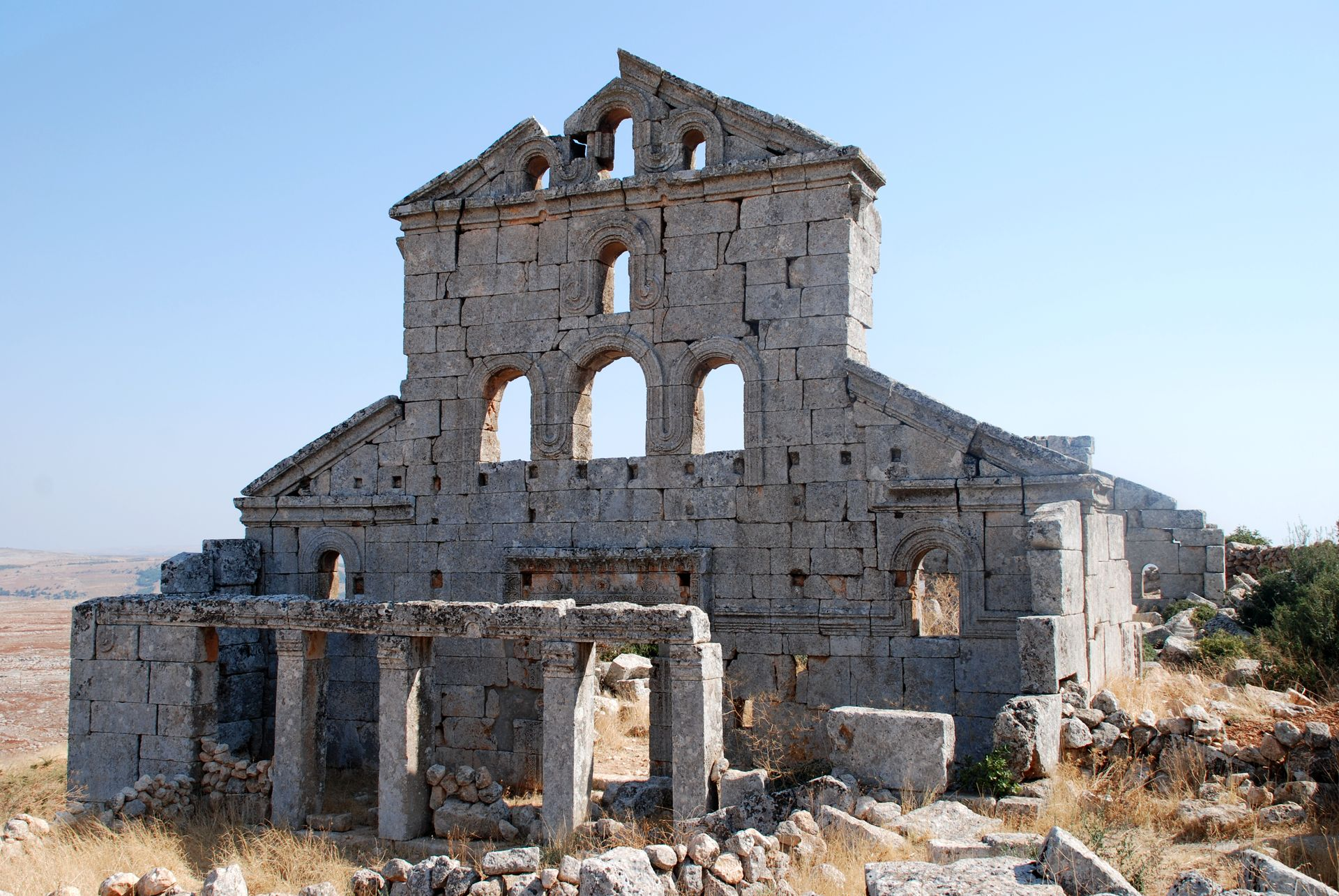 Baqirha, dead city in Syria. East church from west